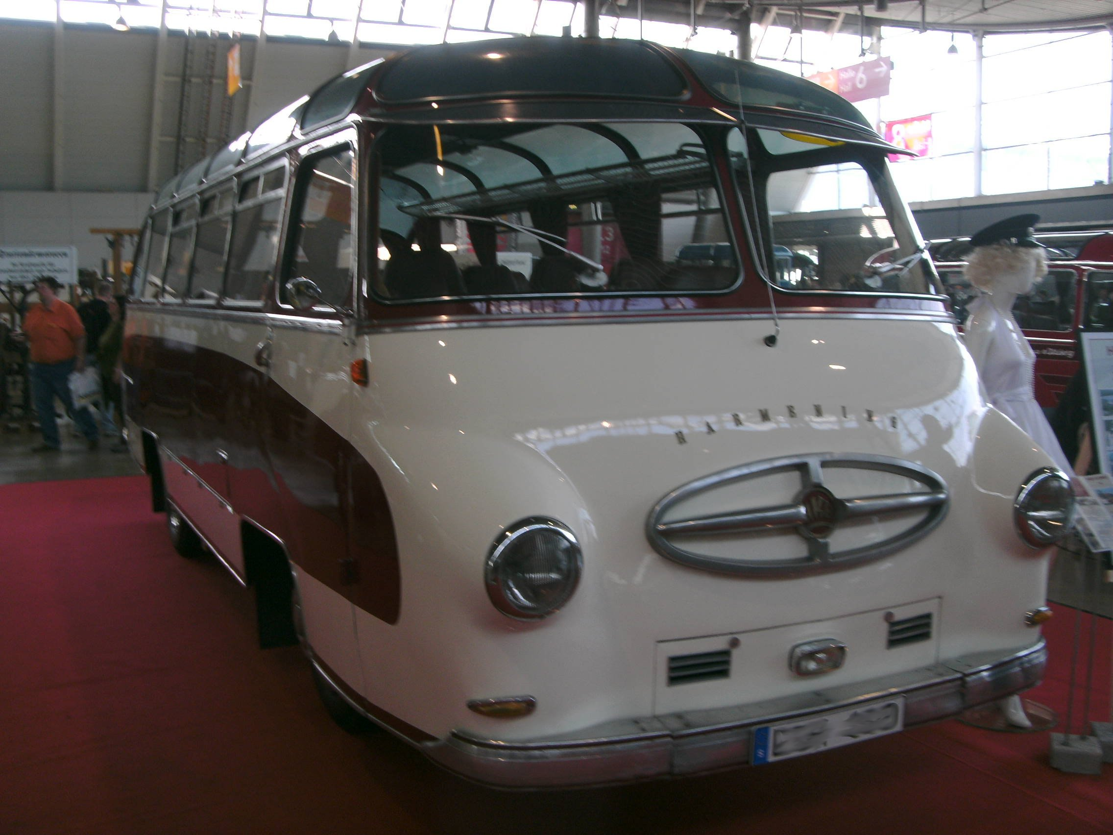 Harmening_HKB_Clubbus at Retro Classics 2012